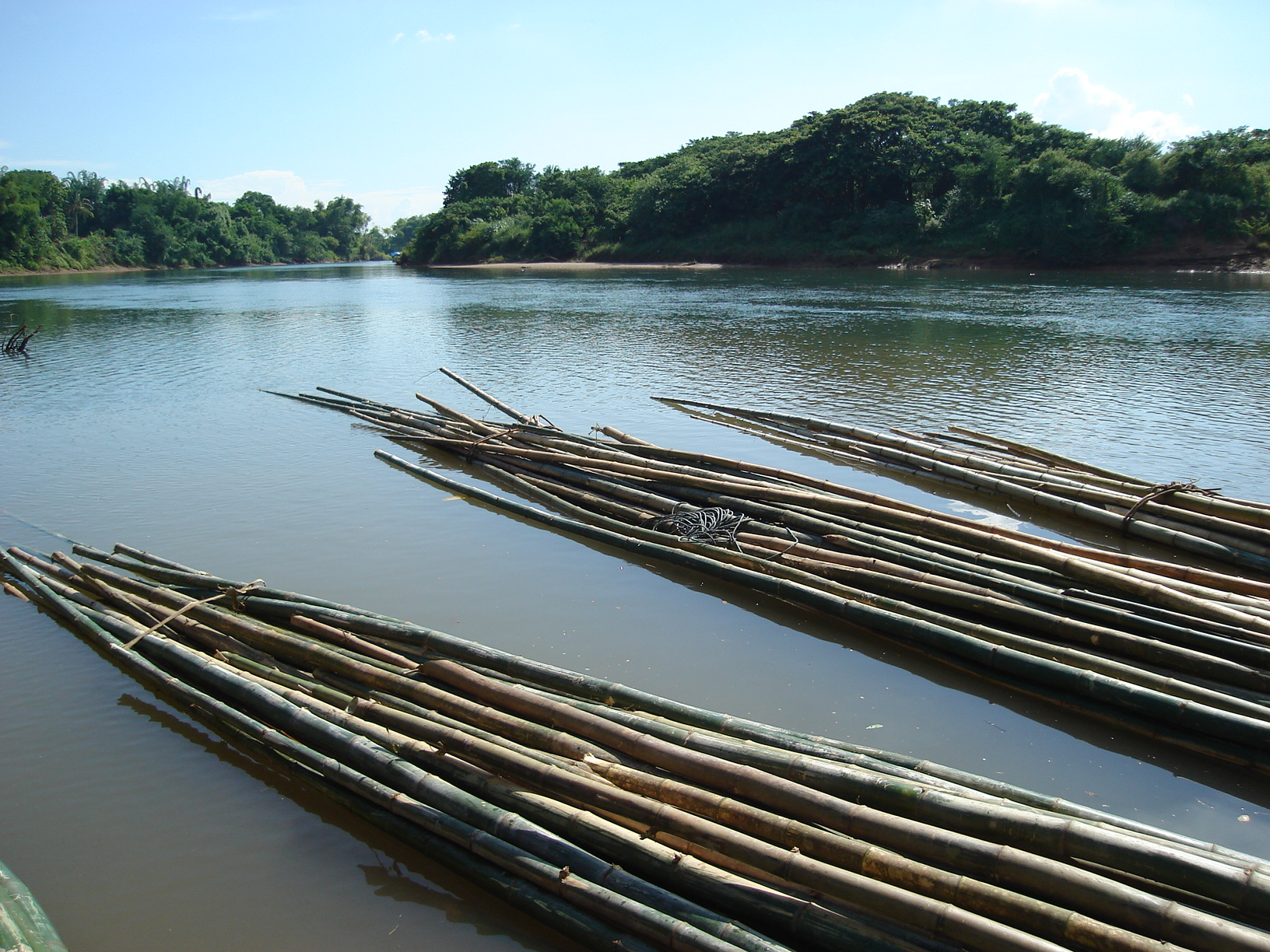 Nan River in uttaradit. Uttaradit, Thailand.